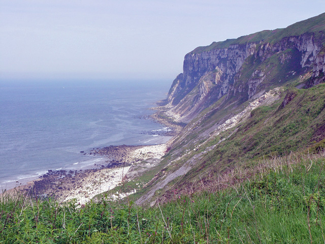 Dulcey Dock, Speeton, North Yorkshire, England.Looking down across Speeton Cliffs, Dulcey Dock seems to be the gap between the white chalk stones that runs to the foot of the cliffs.